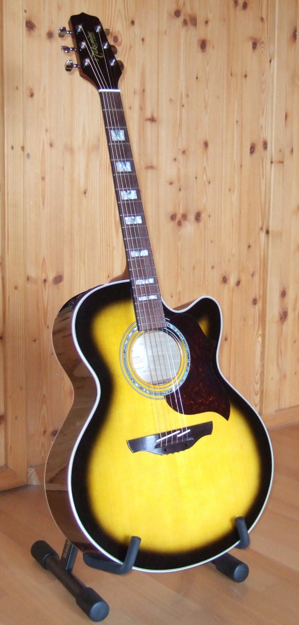 Takamine G-Series Jumbo EG523SC Sunburst